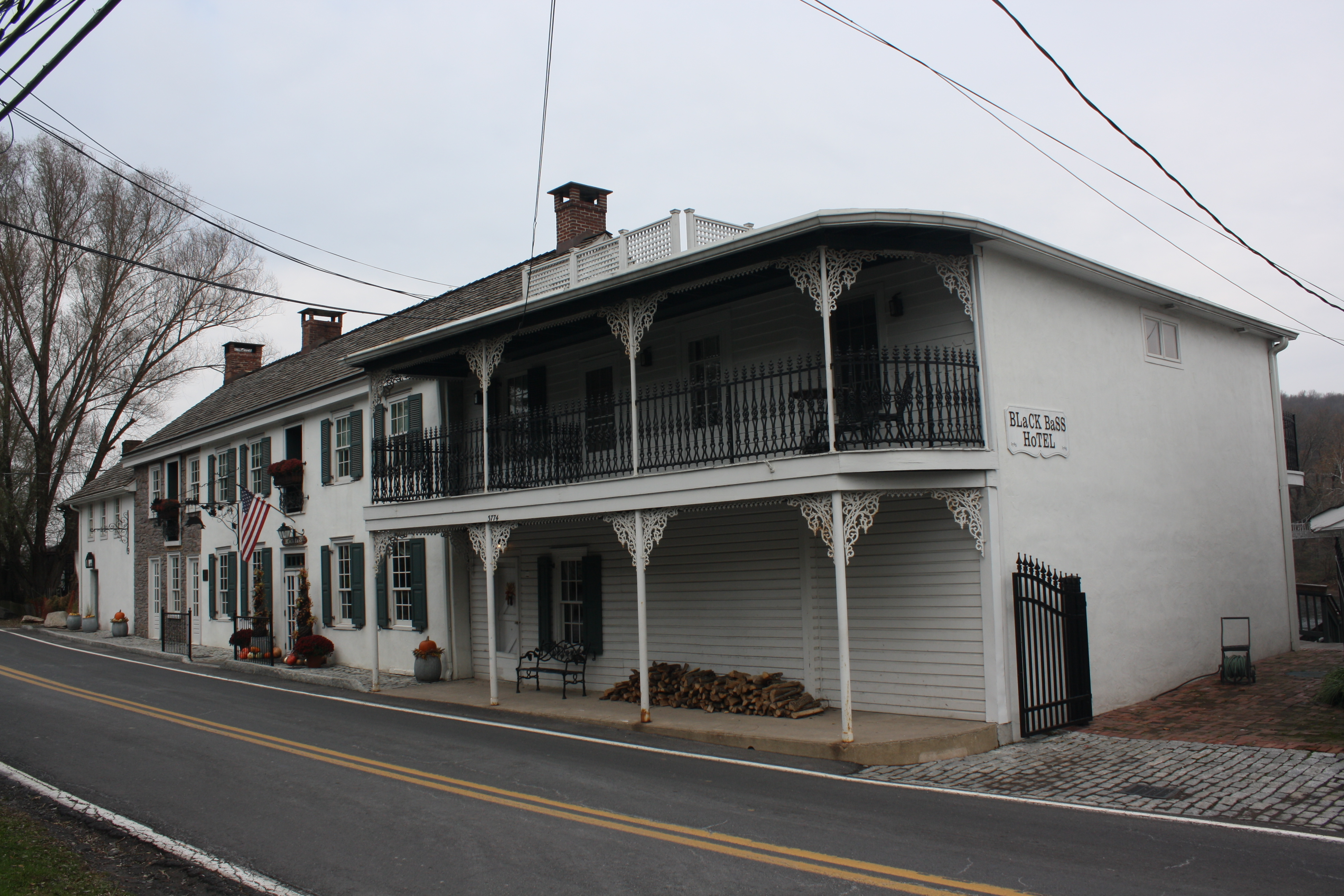 Black Bass Hotel at Lumberville Historic District, a national historic district located in Lumberville, Solebury Township, Bucks County, Pennsylvania. View from River Rd. Object location40° 24′ 02″ N, 74° 58′ 48″ W